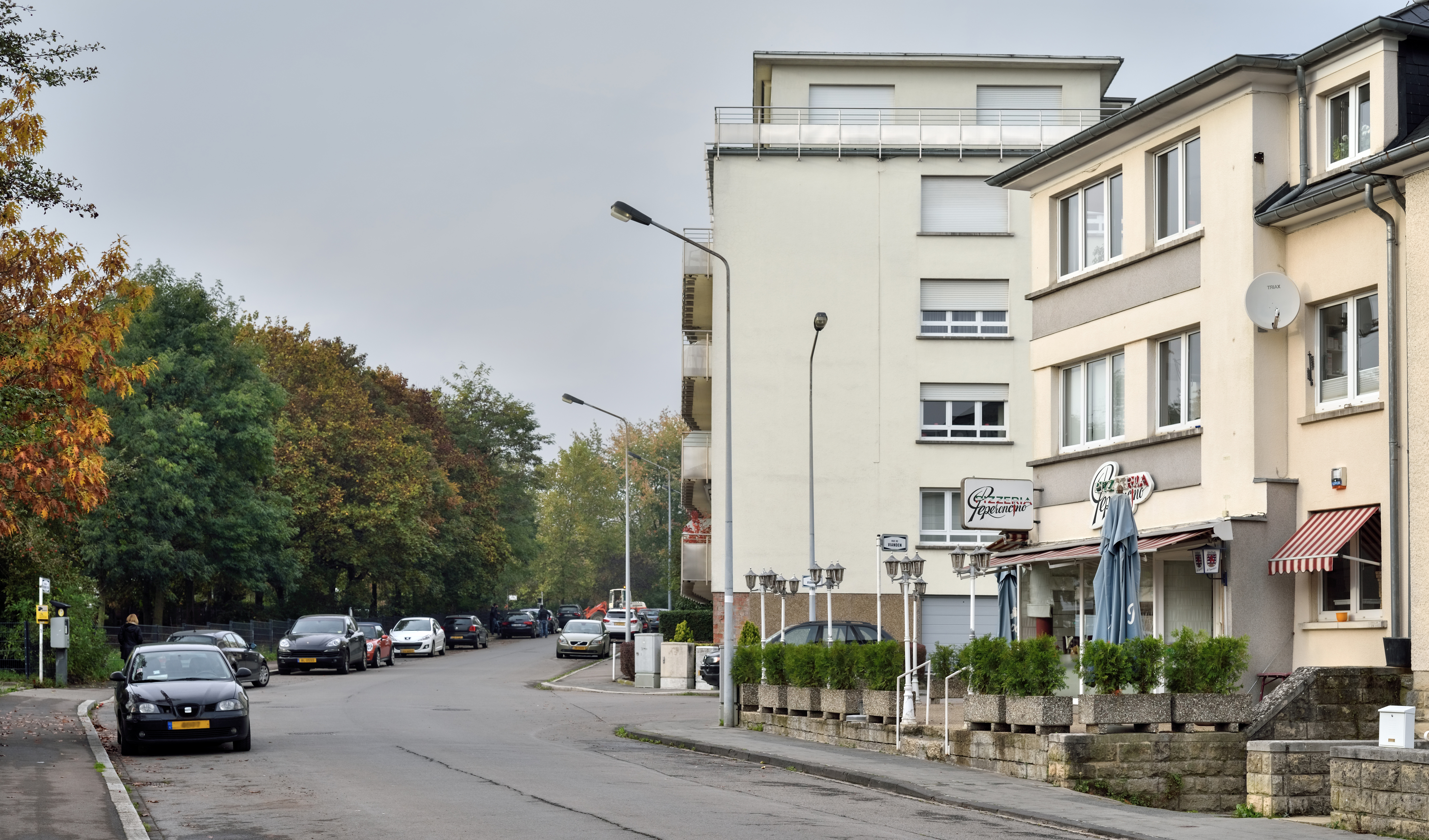 North of Rue de la Toison-d'Or in Hollerich, quarter of Luxembourg City. Rue de Vianden is at the right side of the image.